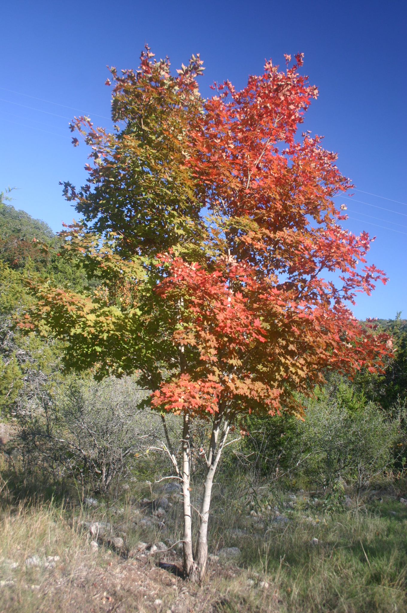 Although the roots of these two maple trees have grown together, they still exhibit startling different timing in their fall foliage color change. Taken at West Trail, Lost Maples State Natural Area, Vanderpool, Texas, USA.